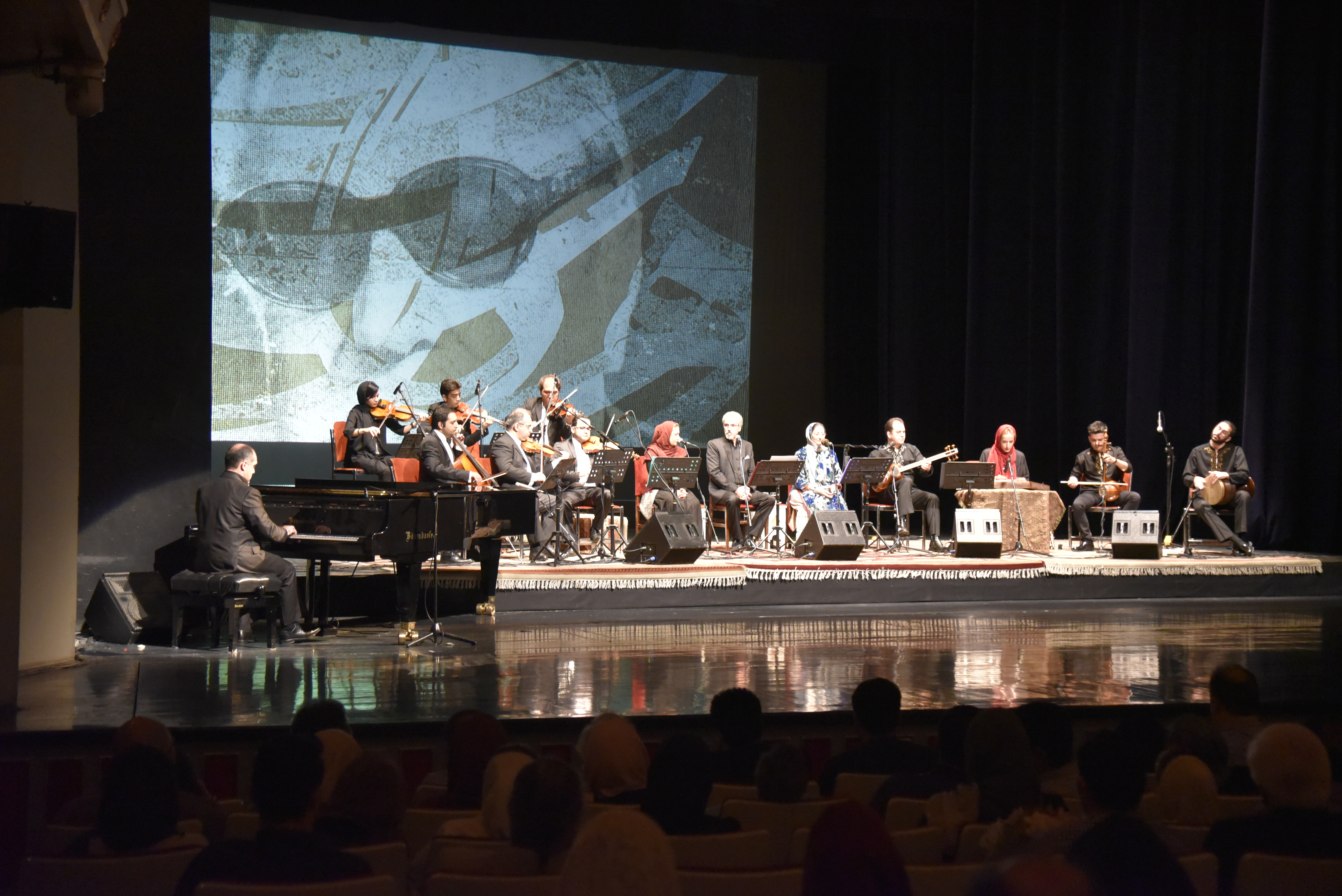 Persian Musical Ensemble at Roudaki Hall 2013